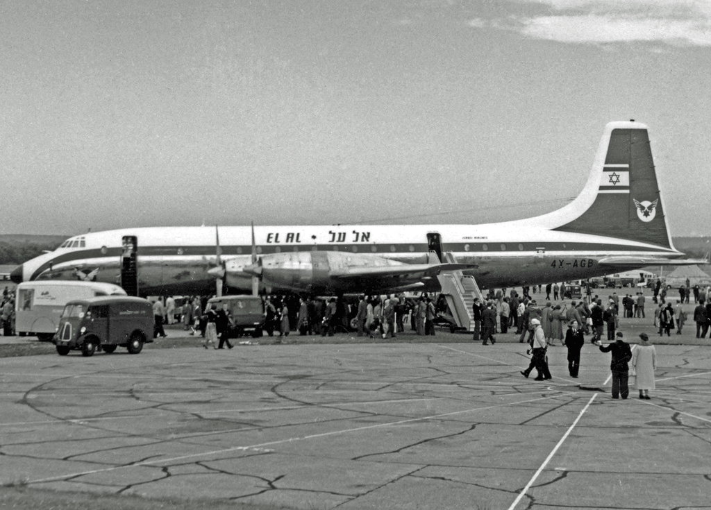 El Al Bristol Britannia 312 4X-AGB at Farnborough in 1957